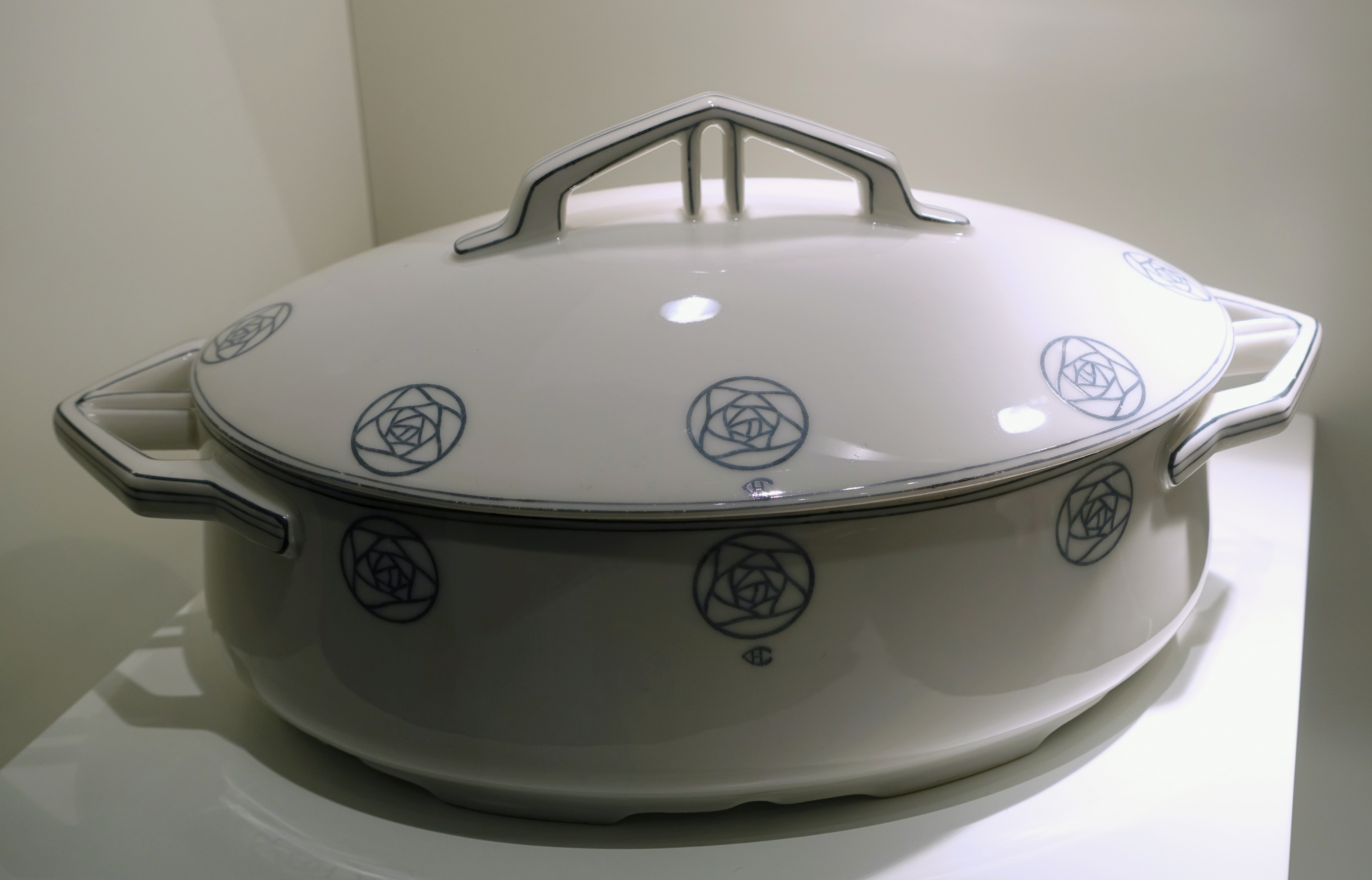 Exhibit in the Museum Künstlerkolonie Darmstadt - Mathildenhöhe - Darmstadt, Germany. As a utilitarian object, the design of this object was not eligible for copyright protection. Rather it might have been eligible for Industrial Design protection, but if so, that protection has expired; see Industrial design right for more information.